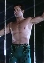 Screenshot of Cornel Wilde from the trailer for the film The Greatest Show on Earth.